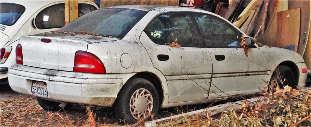 Abandoned Neon seen in the woods.